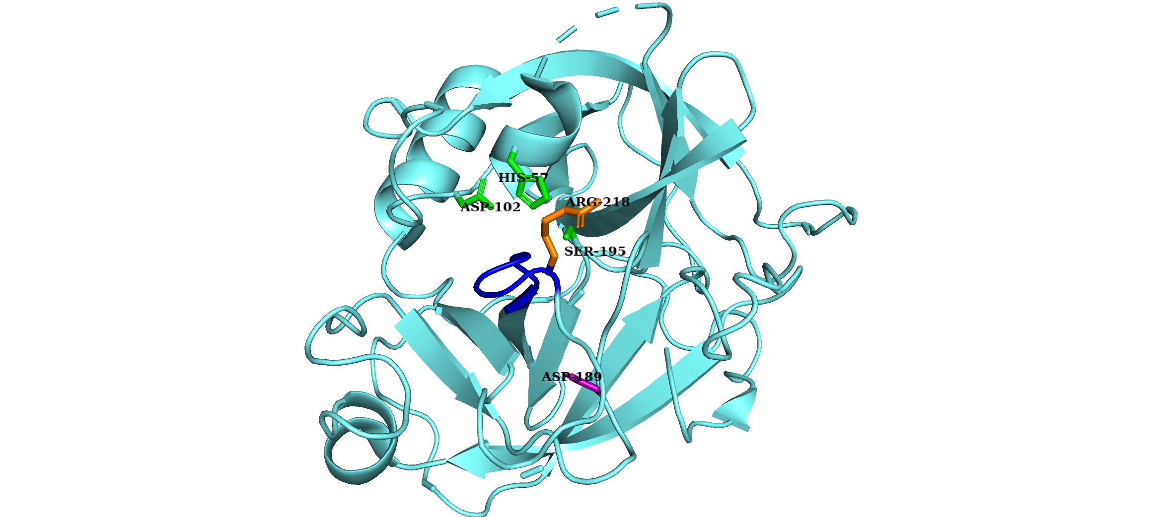 The canonical configuration of Factor D is not self-inhibited. The Asp-Arg salt bridge (purple and orange side chains, respectively) has been displaced resulting in a shift in the self inhibitory loop (blue). The catalytic triad is shown in green.